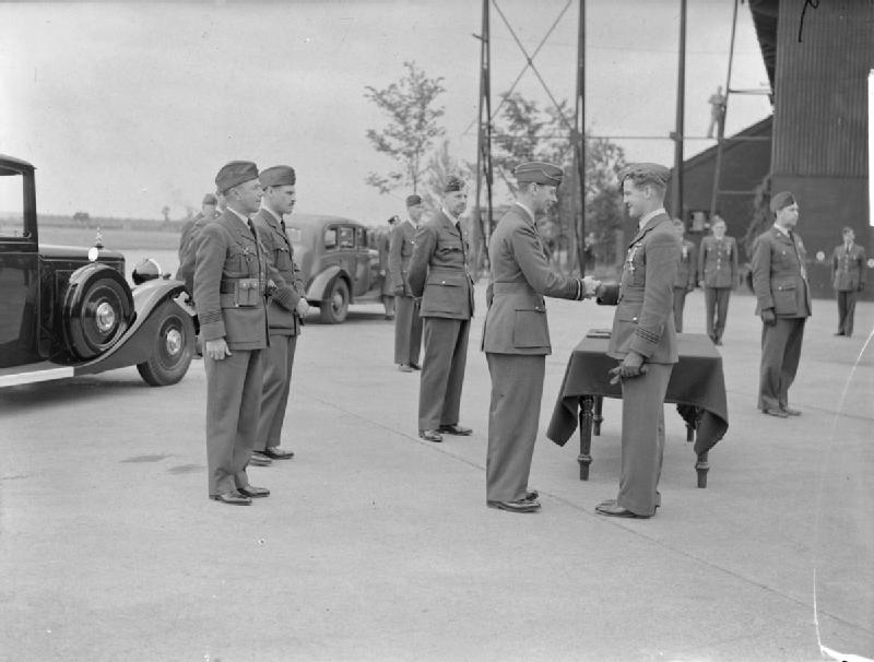 Royal Air Force Fighter Command, 1939-1945. King George VI congratulates Flight-Lieutenant A C Deere, on decorating him with the Distinguished Flying Cross at Hornchurch, Essex. To the King's left stands Air Chief Marshal Sir Hugh Dowding, Air Officer Commander-in-Chief, Fighter Command.